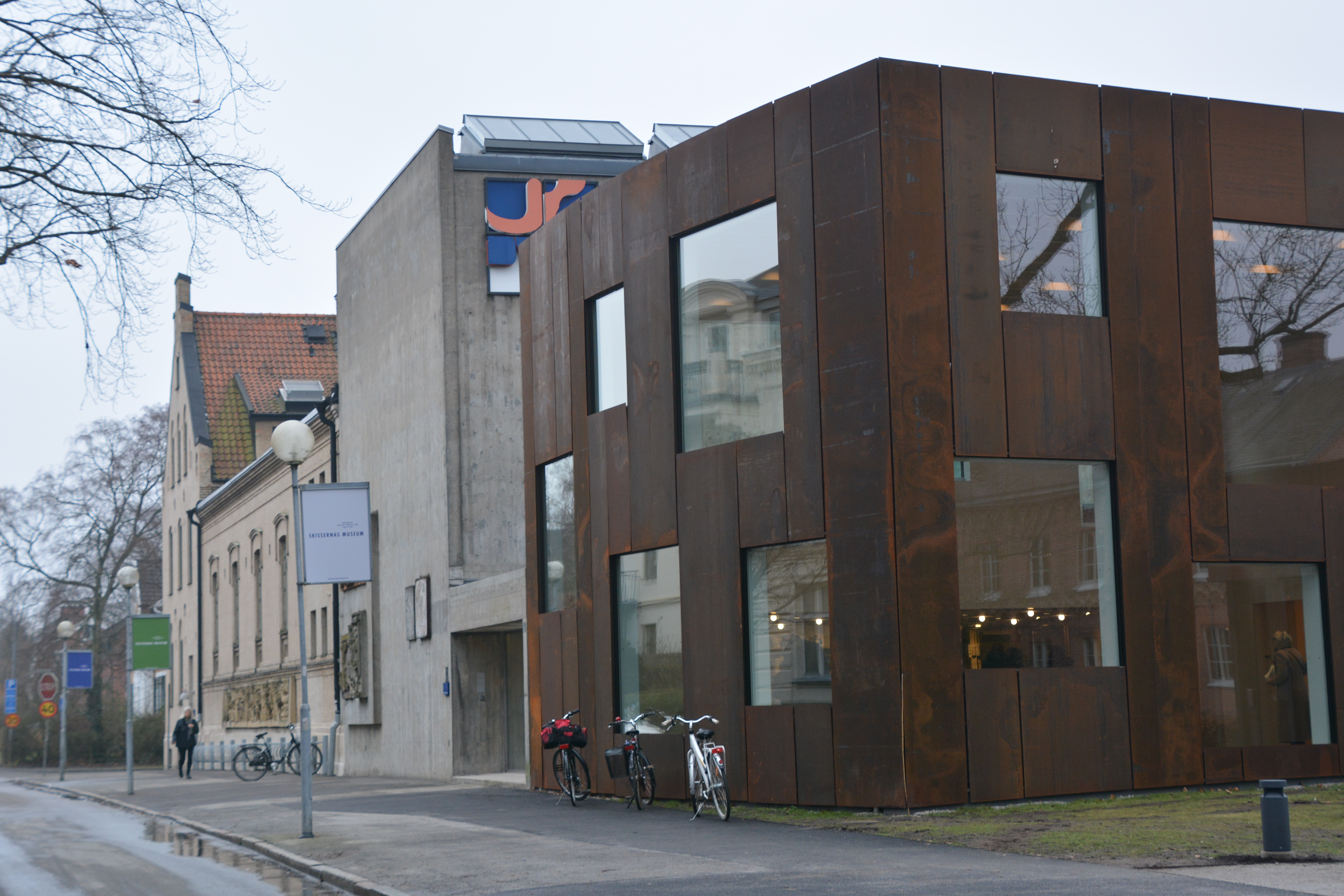 Fasaderna utmed Finngatan, Skissernas museum i Lund.